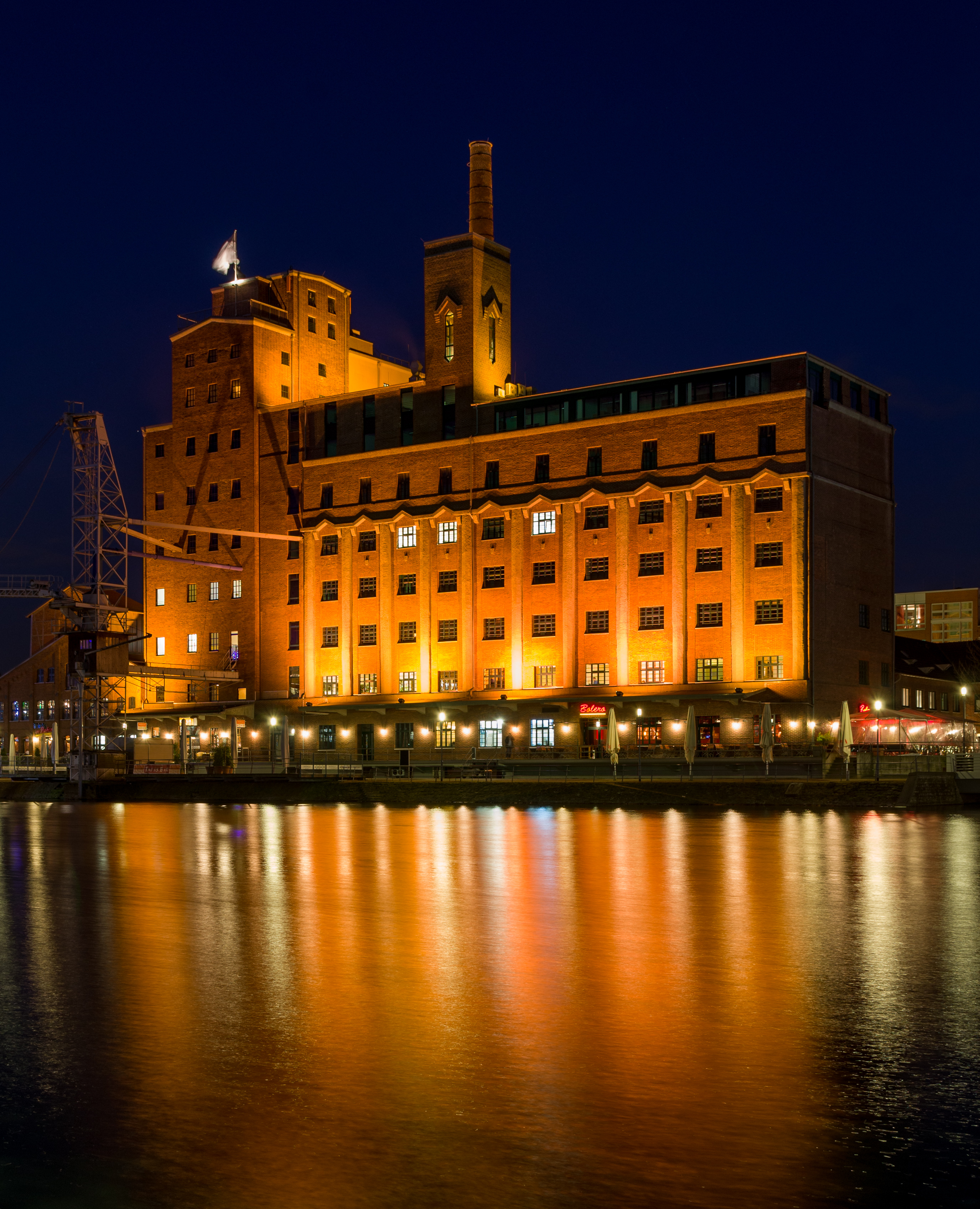 Nightly view of Duisburg Inner Harbour with mill Werhahnmühle